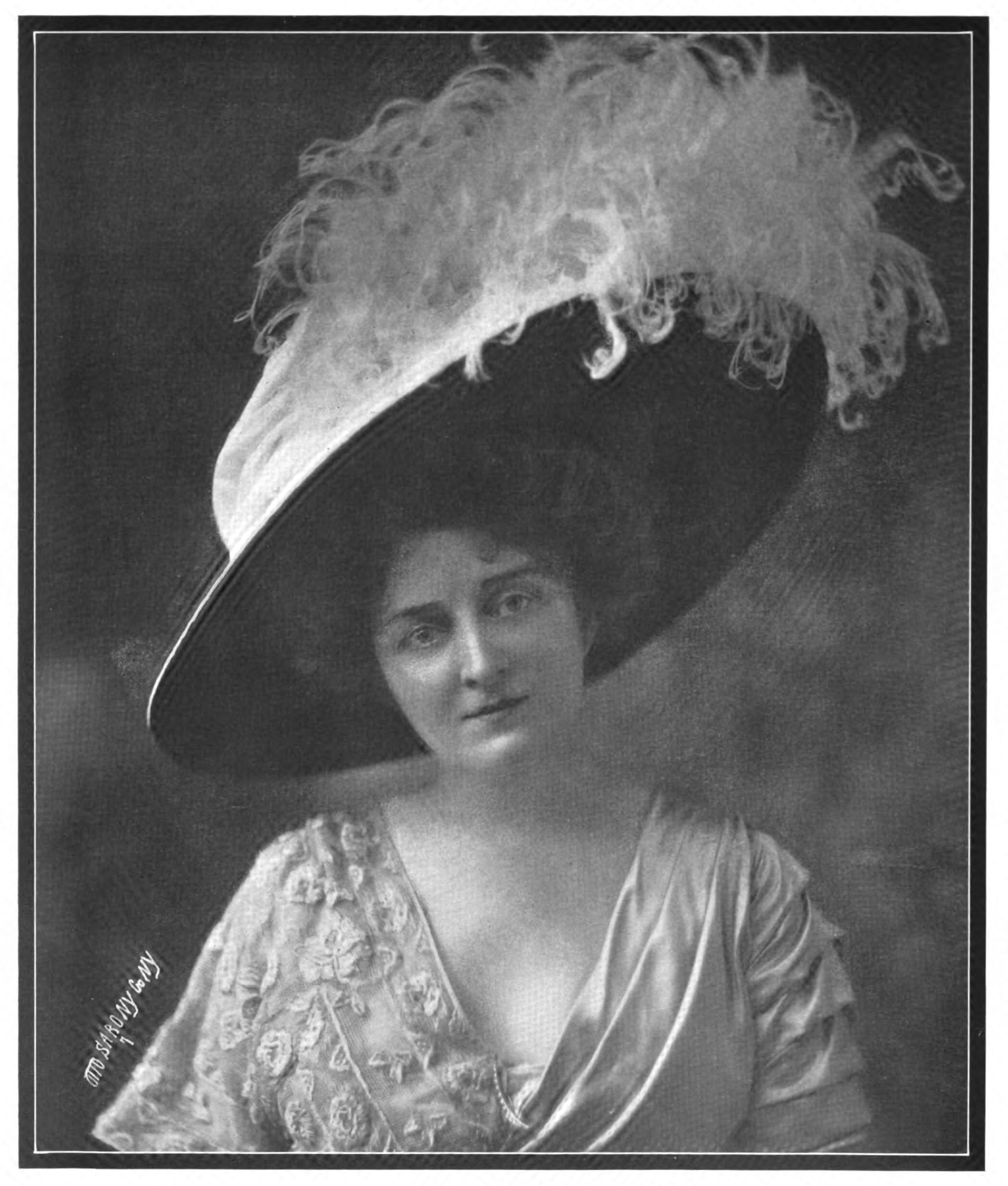 Alice Johnson was a Broadway actress, active at the turn of the 20th century (1888–1922)